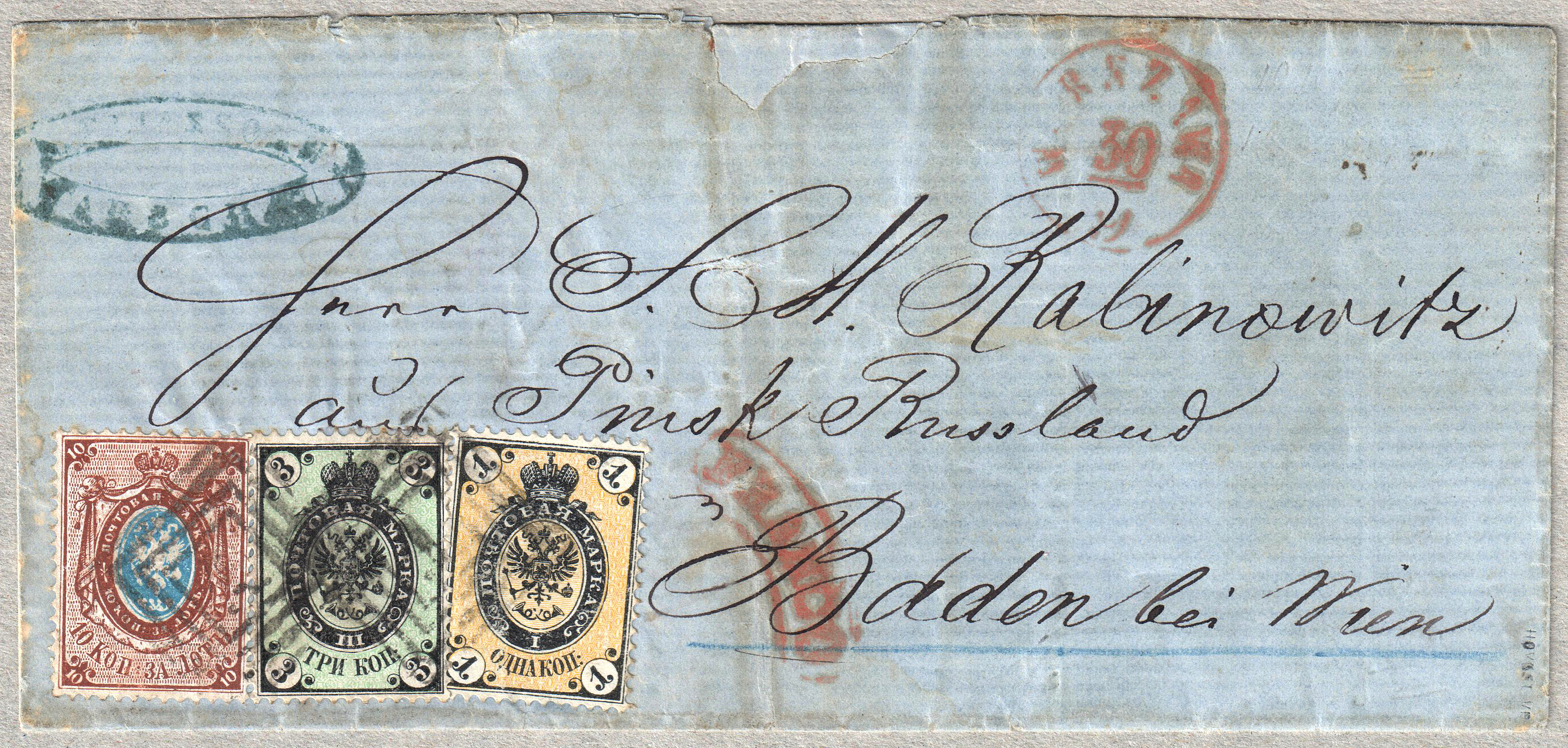 1866 10k brown and blue, 1k and 3k 1865 tied by "1" in four squares, with red Warszawa (30/9) departure cds (Polish cancels were valid until 1864; replaced by Cyrillic thereafter), used ca. 1866 on outer FL to Baden (Austria), with red horseshoe "Franco". Arrival markings on back, signed Hovest.